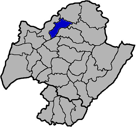 Sinying City, Tainan County, Taiwan.